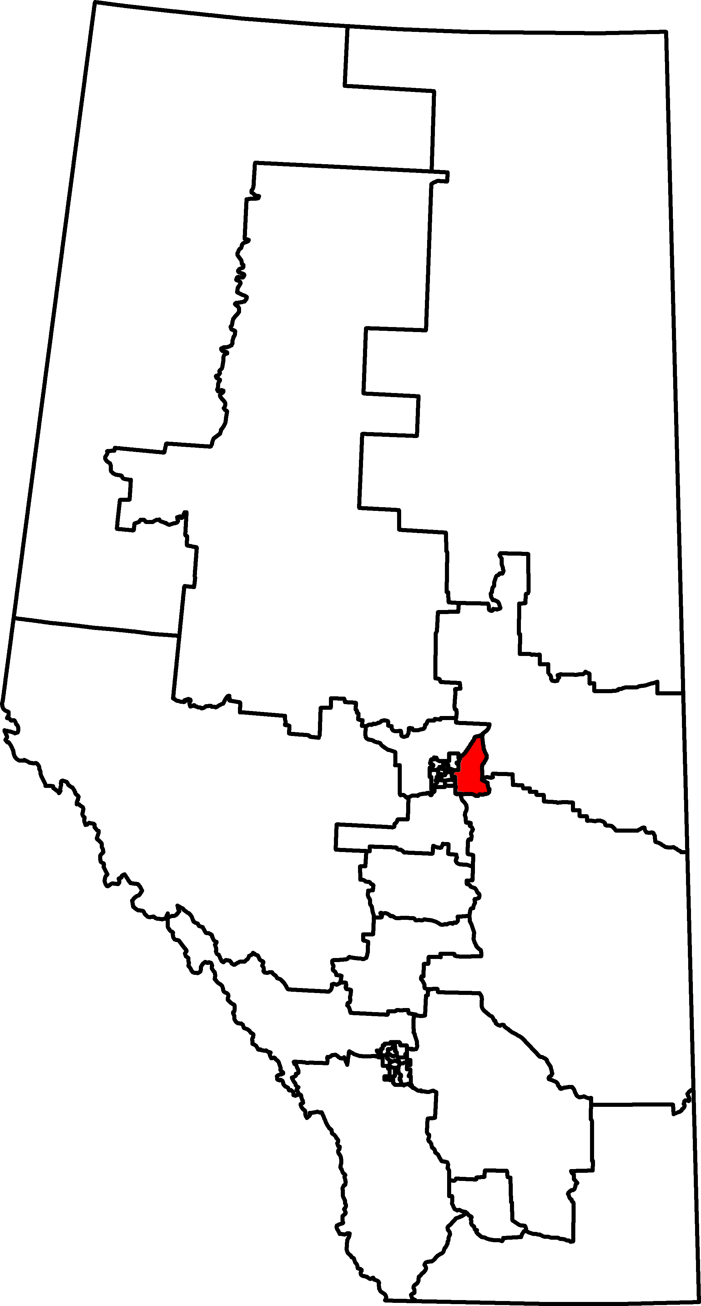 Federal Electoral District in Alberta, Canada as of the 2013 Representation Order.